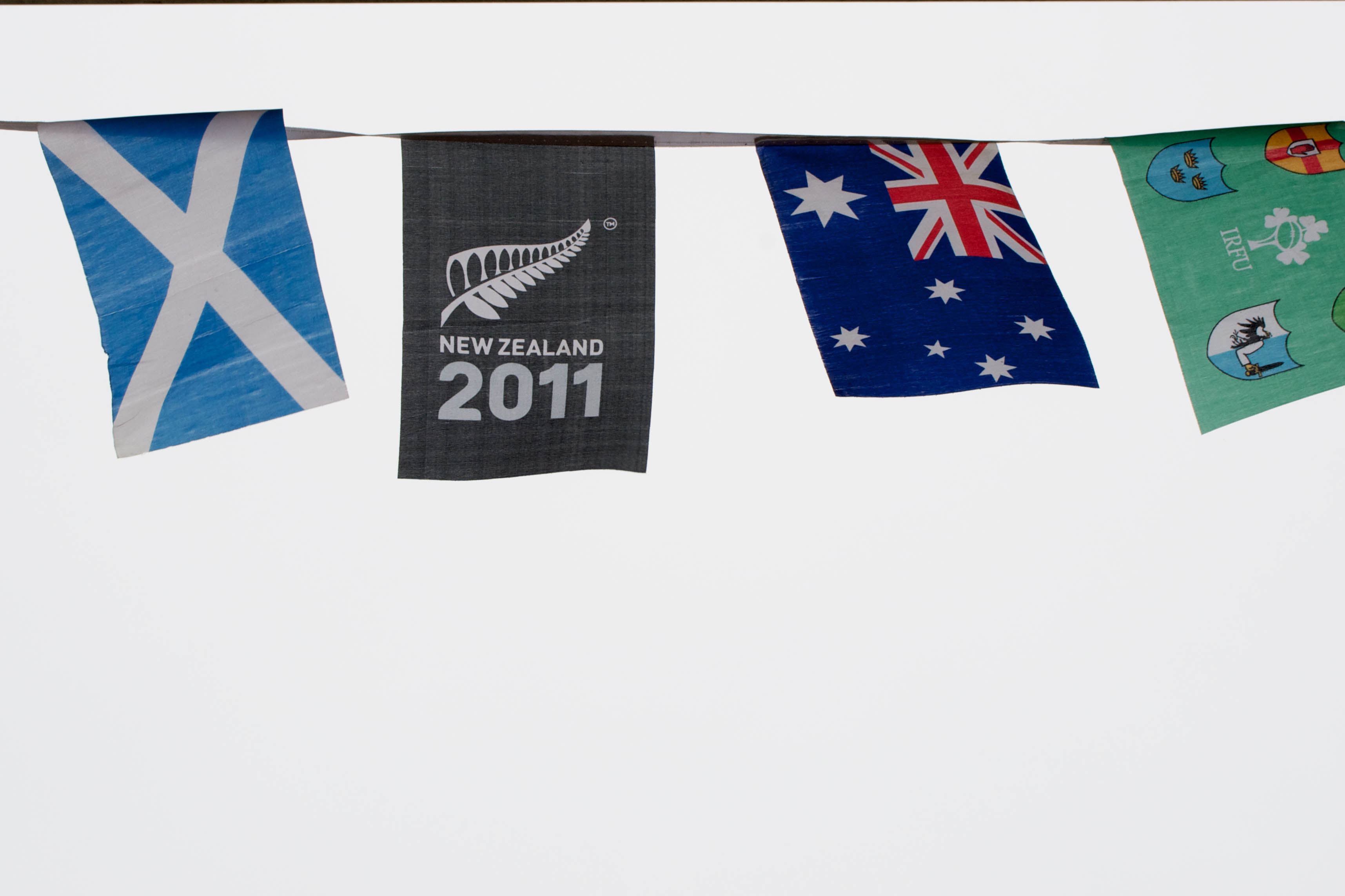 Thousands of km of these flags strung up all over New Zealand